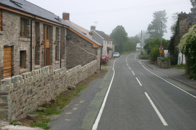 The B4560 passes through Trefeca The B4560 passes through Trefeca heading towards Talgarth